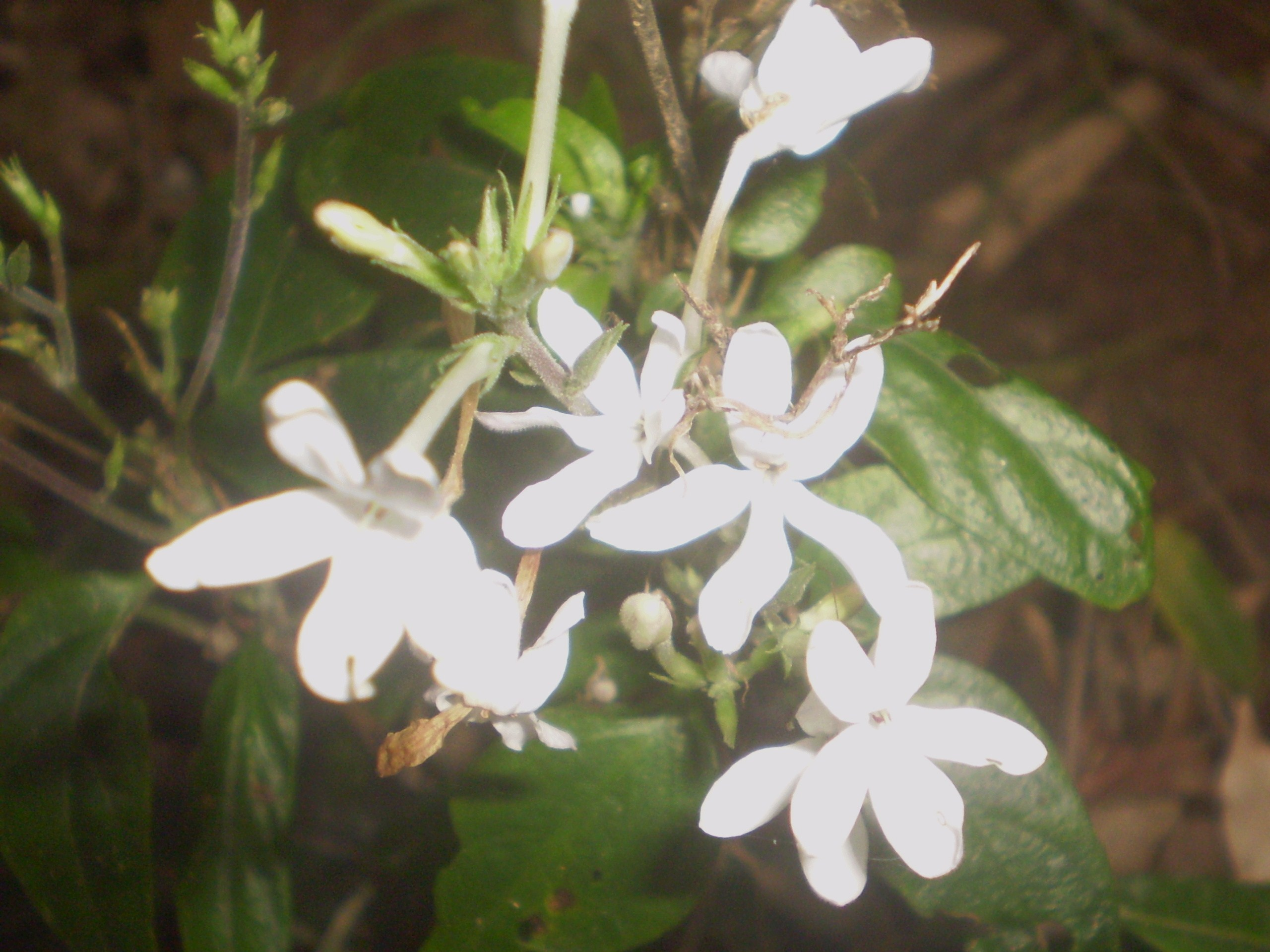 Love Flower ( Pseuderanthemum variabile), planted on the Butterfly Walk at the Woodford Folk Festival site, is the host plant for the Leafwing and Varied Eggfly butterflies and also the Blue Argus, Blue-banded Eggfly and Danaid Eggfly butterflies, less common to this region. The self-seeding Love Flower can provide a very pretty permanent groundcover in a suitable partially shaded moist spot. (See Frank Jordan & Helen Schwencke "Create More Butterflies", p54).